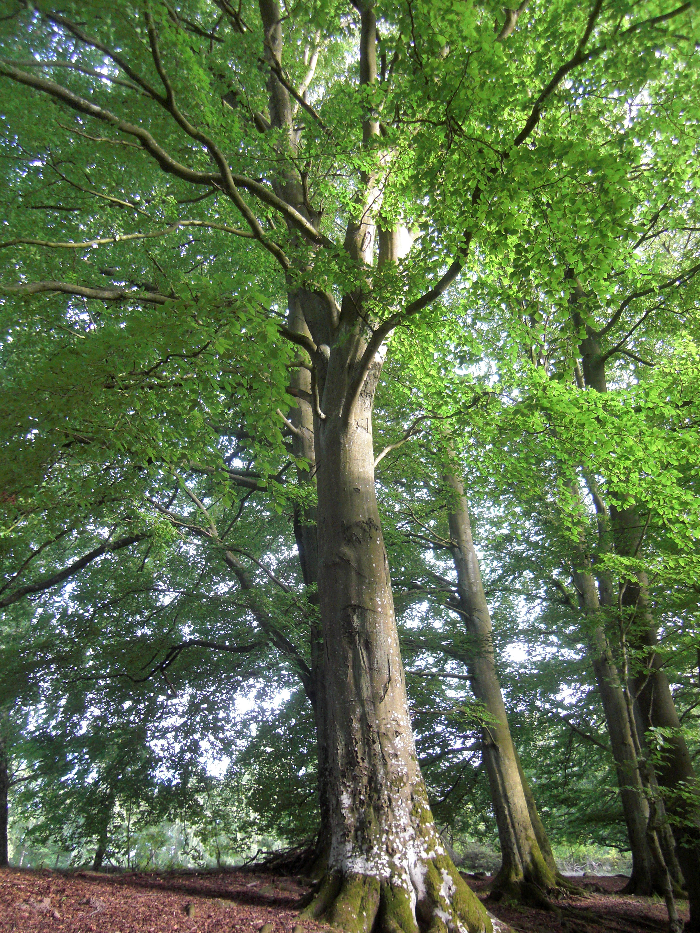 An European beech (Fagus sylvatica) in Humlamaden, Veberöd Parish, Torna Hundred, Lund Municipality, southern Skåne, Sweden.